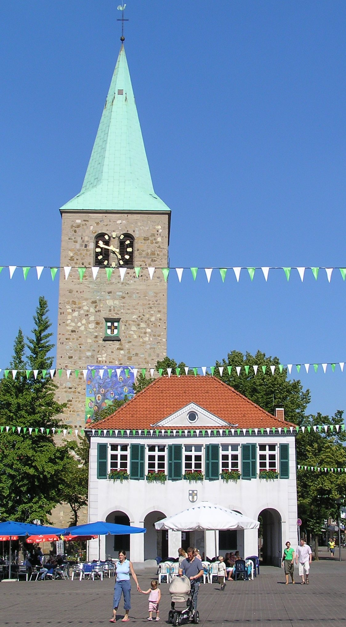 Stadtwaage (temporary city hall and museum) and the church of St. Agatha located at the marketplace of Dorsten